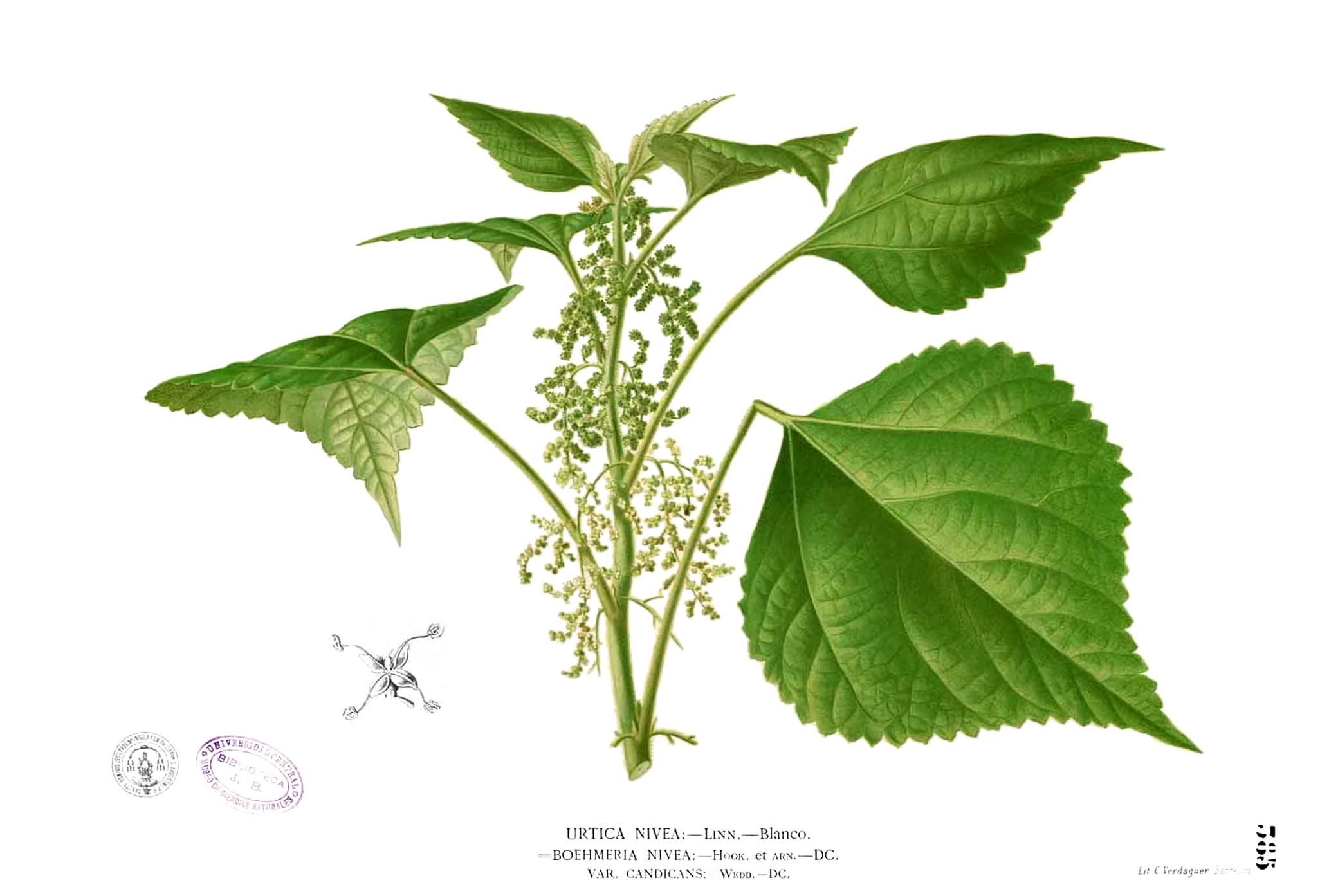 Boehmeria nivea Plate from book